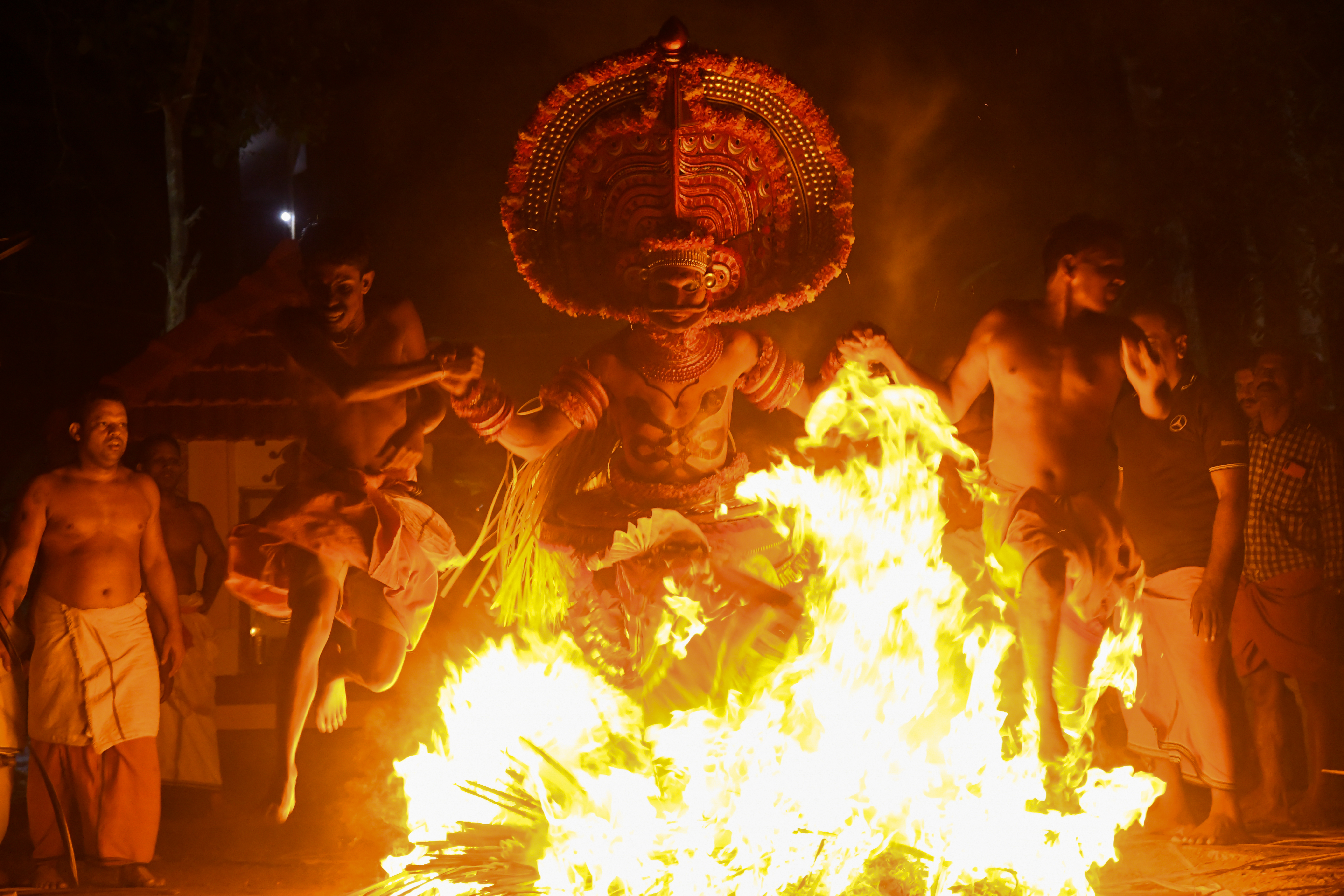 theyyam is a ritual art of Kerala